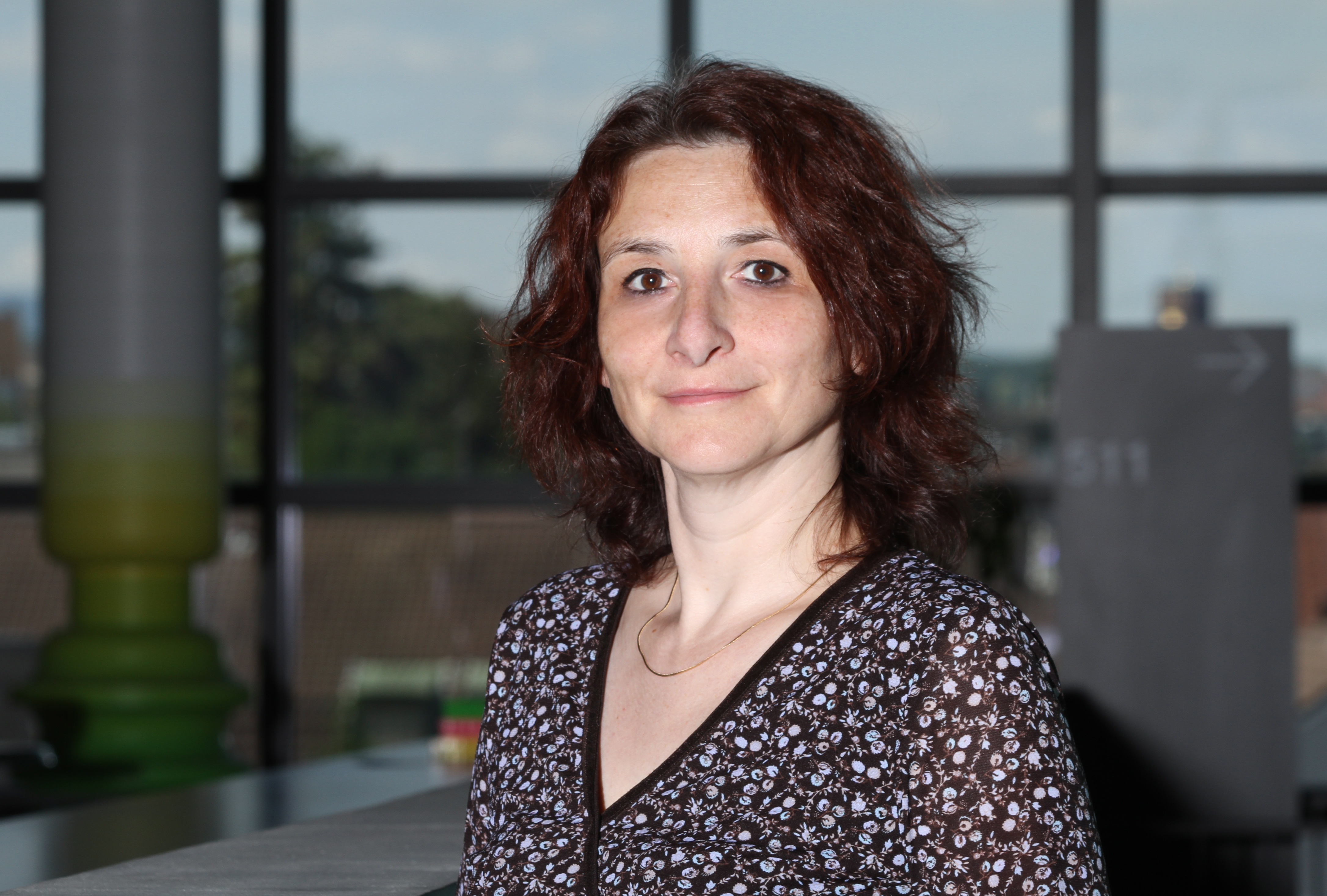 Professor Anne Spang, Biozentrum University of Basel Switzerland